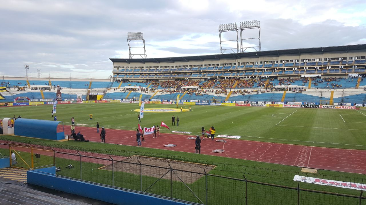 Olympic Stadium @ San Pedro Sula, Honduras. Final Game: Real Espana Vs Motagua